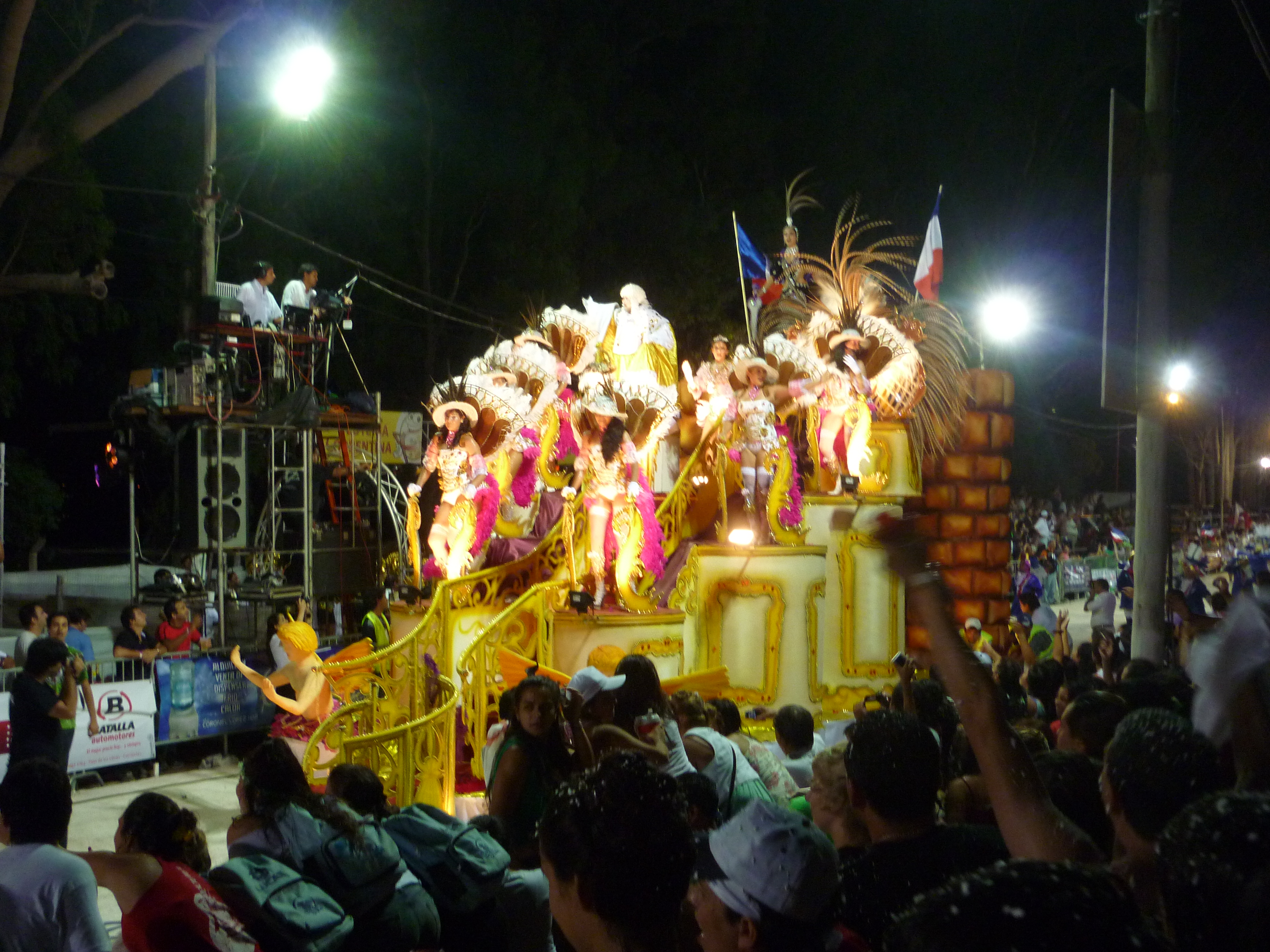 Carro: A Toma da Bastilha - França. Primeira Noite de Desfile do Carnaval de Paso de los Libres (Corrientes - Argentina)